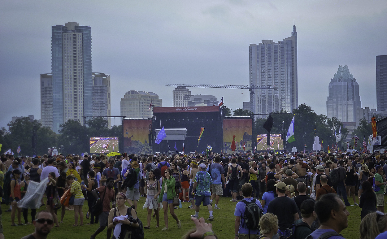 Bud Light stage with the Austin skyline in the background